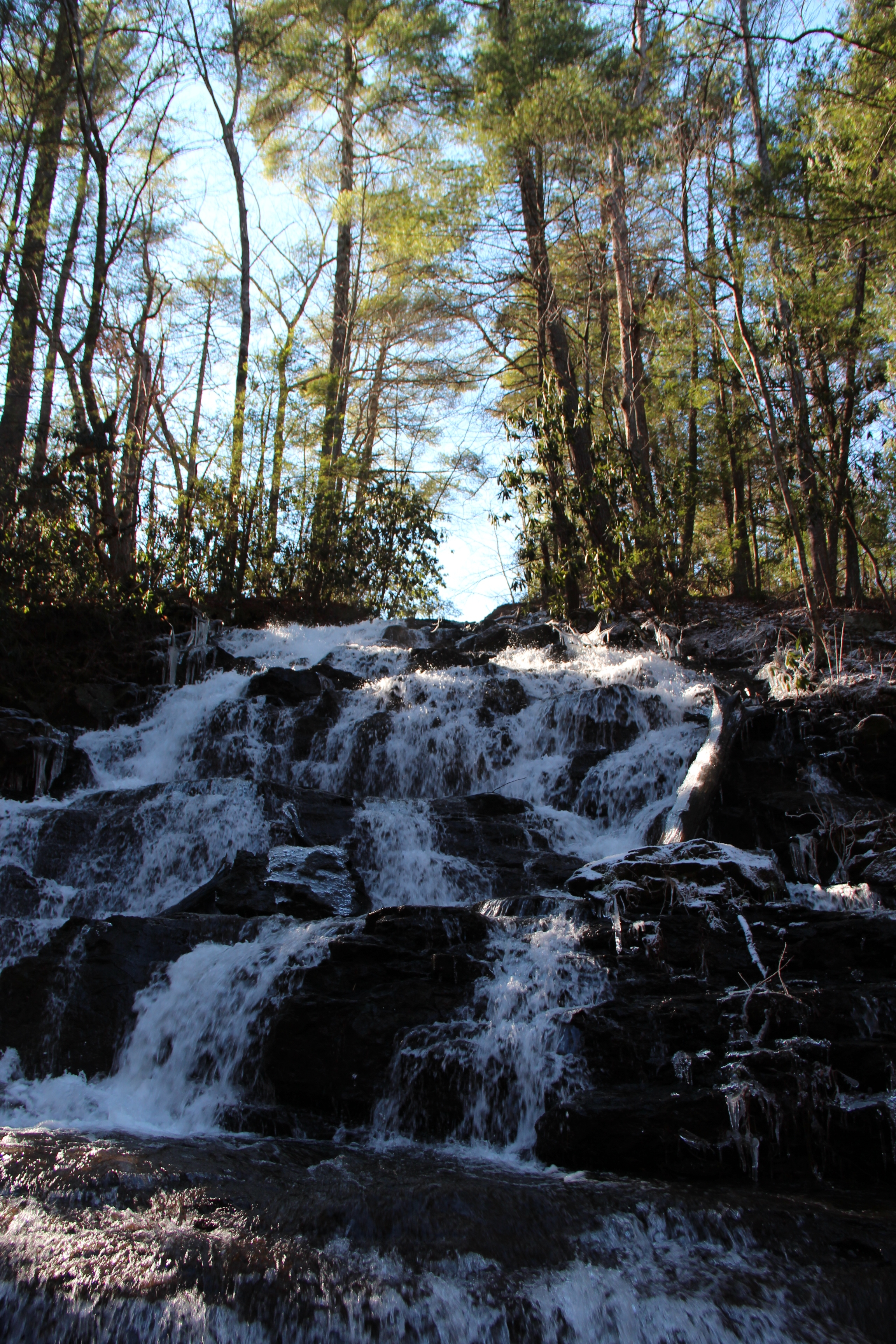 Trahlyta Falls in Vogel State Park